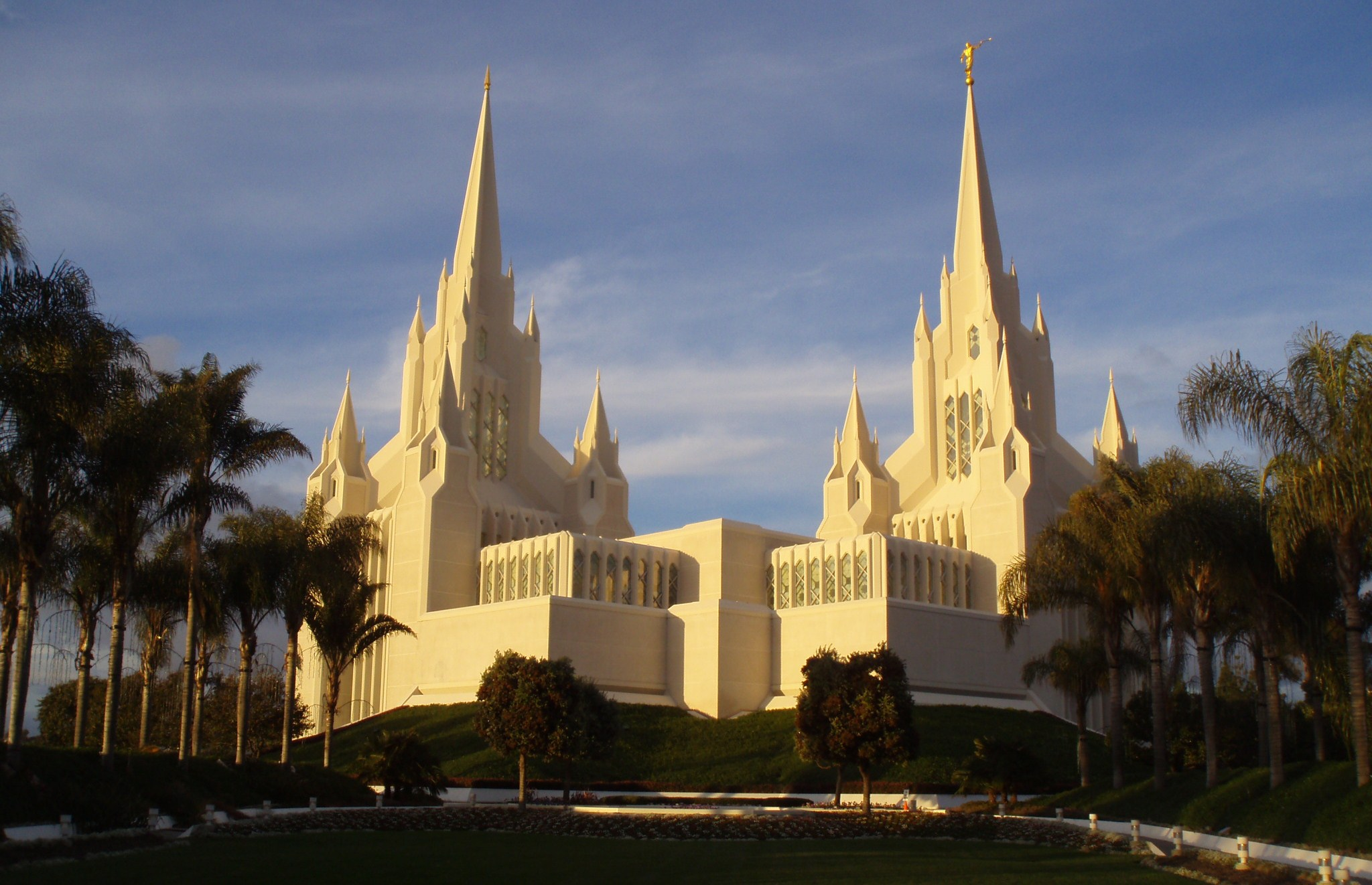 The San Diego California Temple of The Church of Jesus Christ of Latter-day Saints.